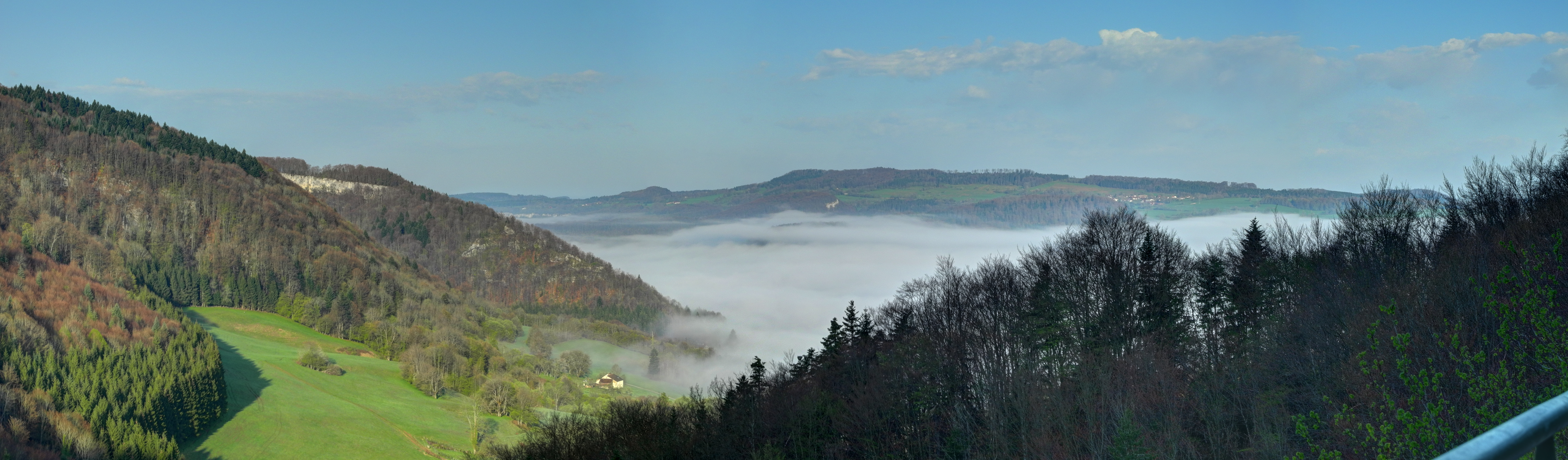 NOTE: This image is a panorama consisting of multiple frames that were merged or stitched in software. As a result, this image necessarily underwent some form of digital manipulation. These manipulations may include blending, blurring, cloning, and colour and perspective adjustments. As a result of these adjustments, the image content may be slightly different from reality at the points where multiple images were combined. This manipulation is often required due to lens, perspective, and parallax distortions. Panorama d'une vallée, dans le brouillard (HDR).